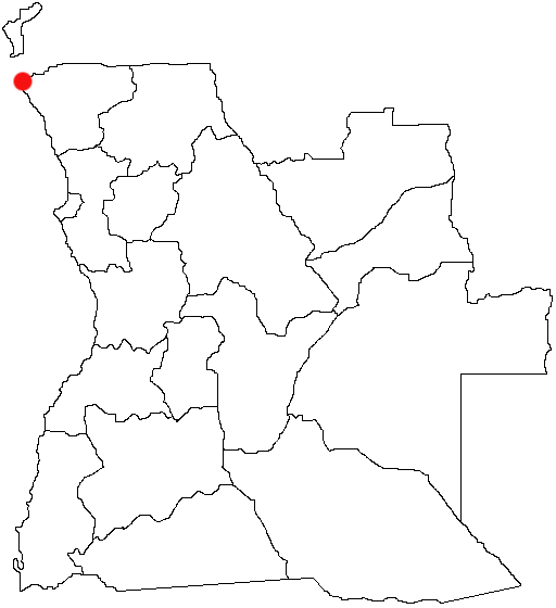 Soyo, Angola Location Map; created with the GIMP. Made by User:Acntx.